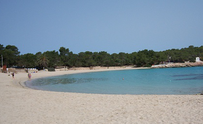 Cala Bassa beach, eivissa